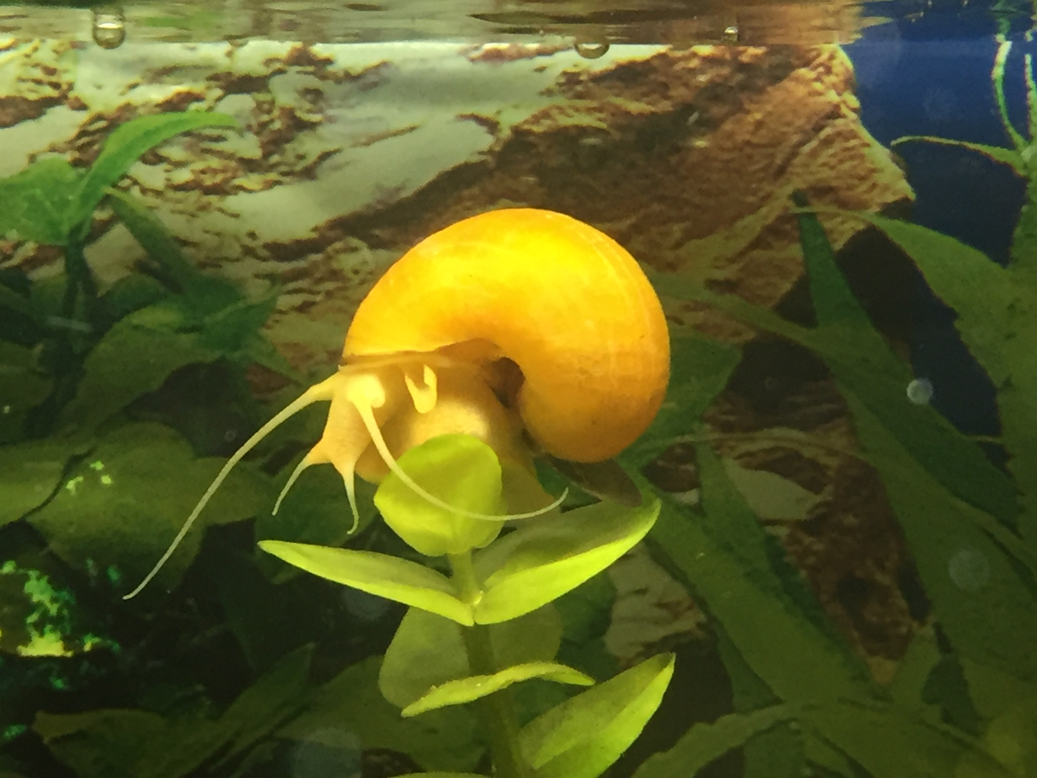 Apple snail